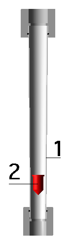 Sectional view of a variable area flowmeter